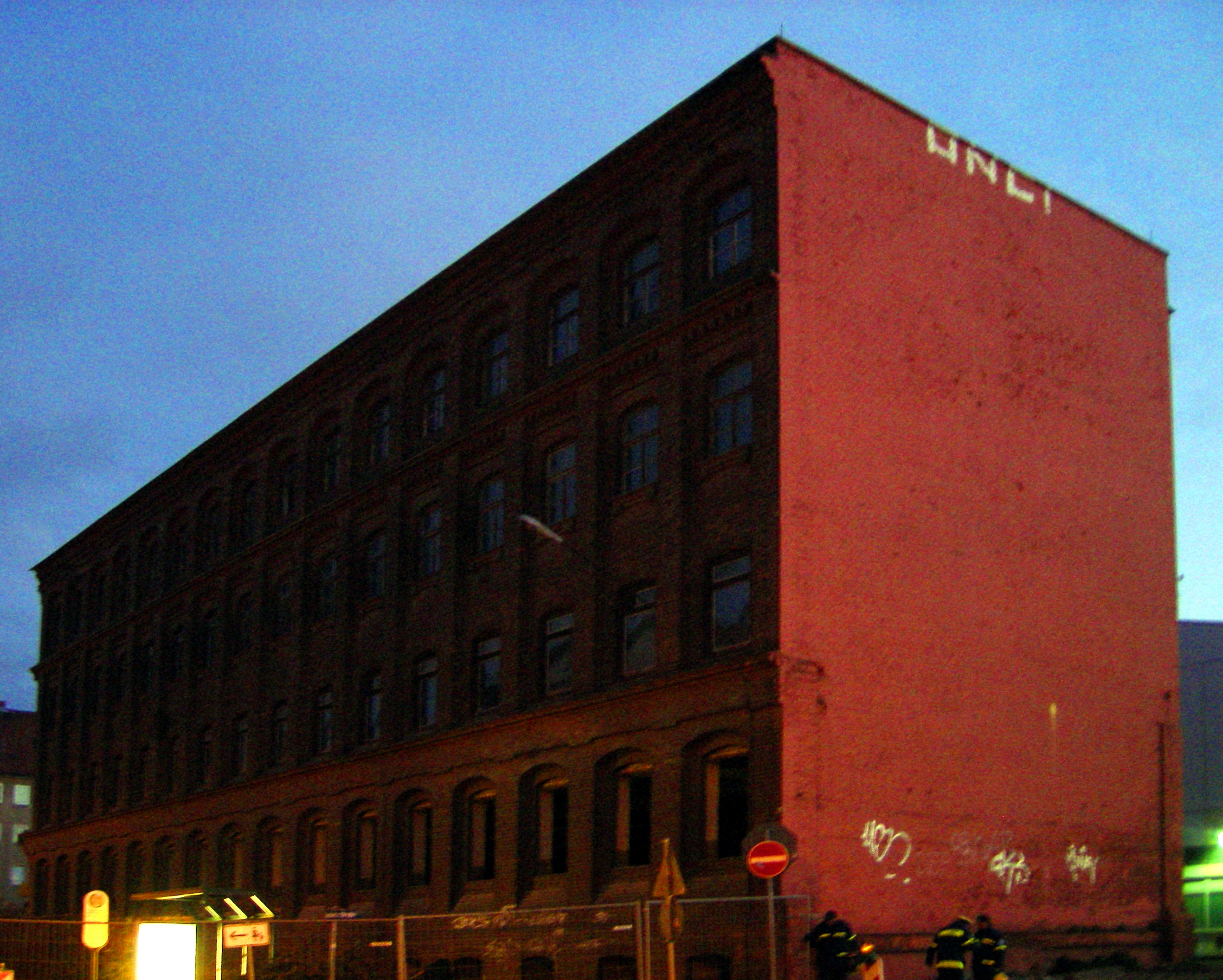 Ancient sewing machine factory Köhler in city of Skat Altenburg/Thuringia